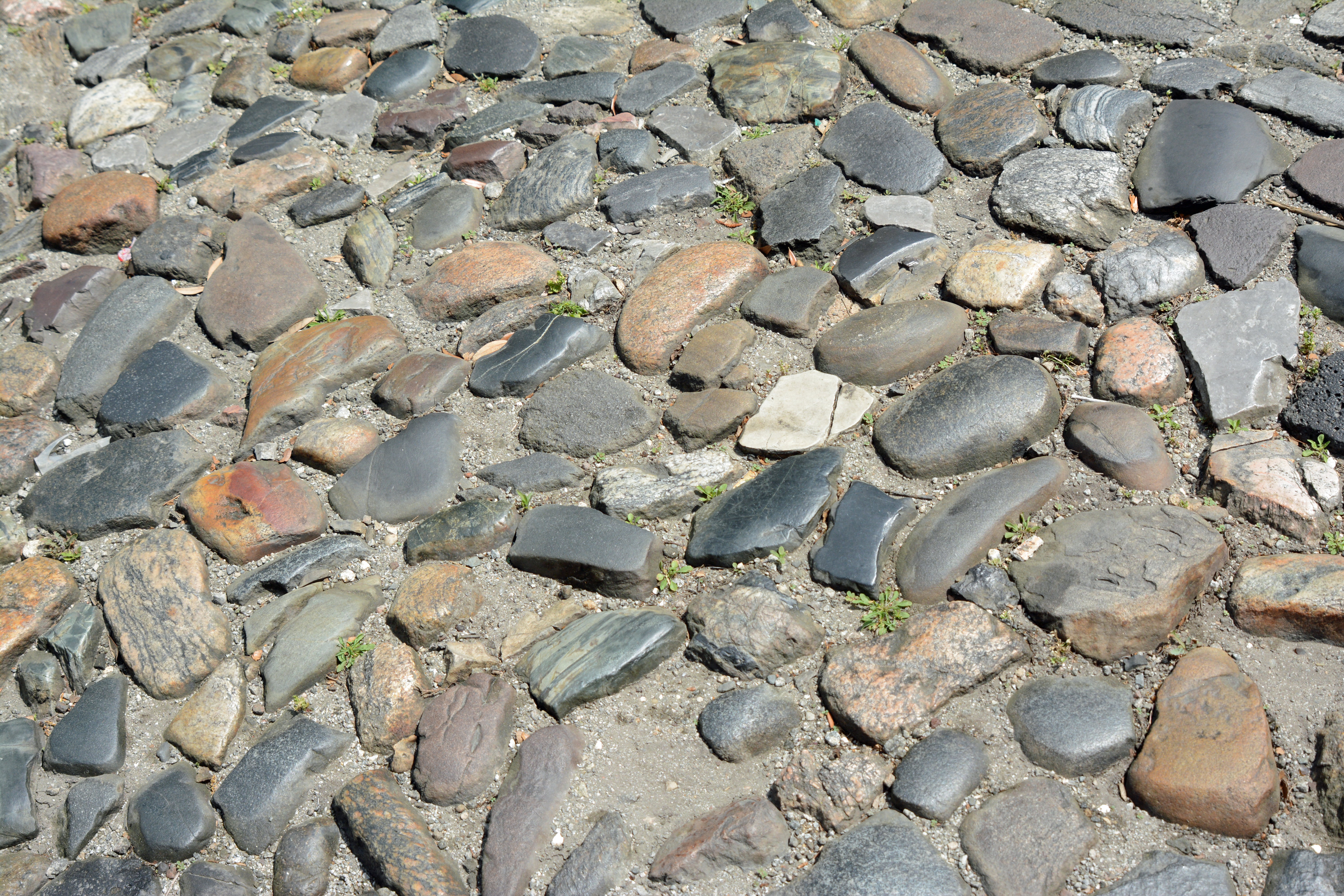 Cobblestone street in Savannah, Georgia, US